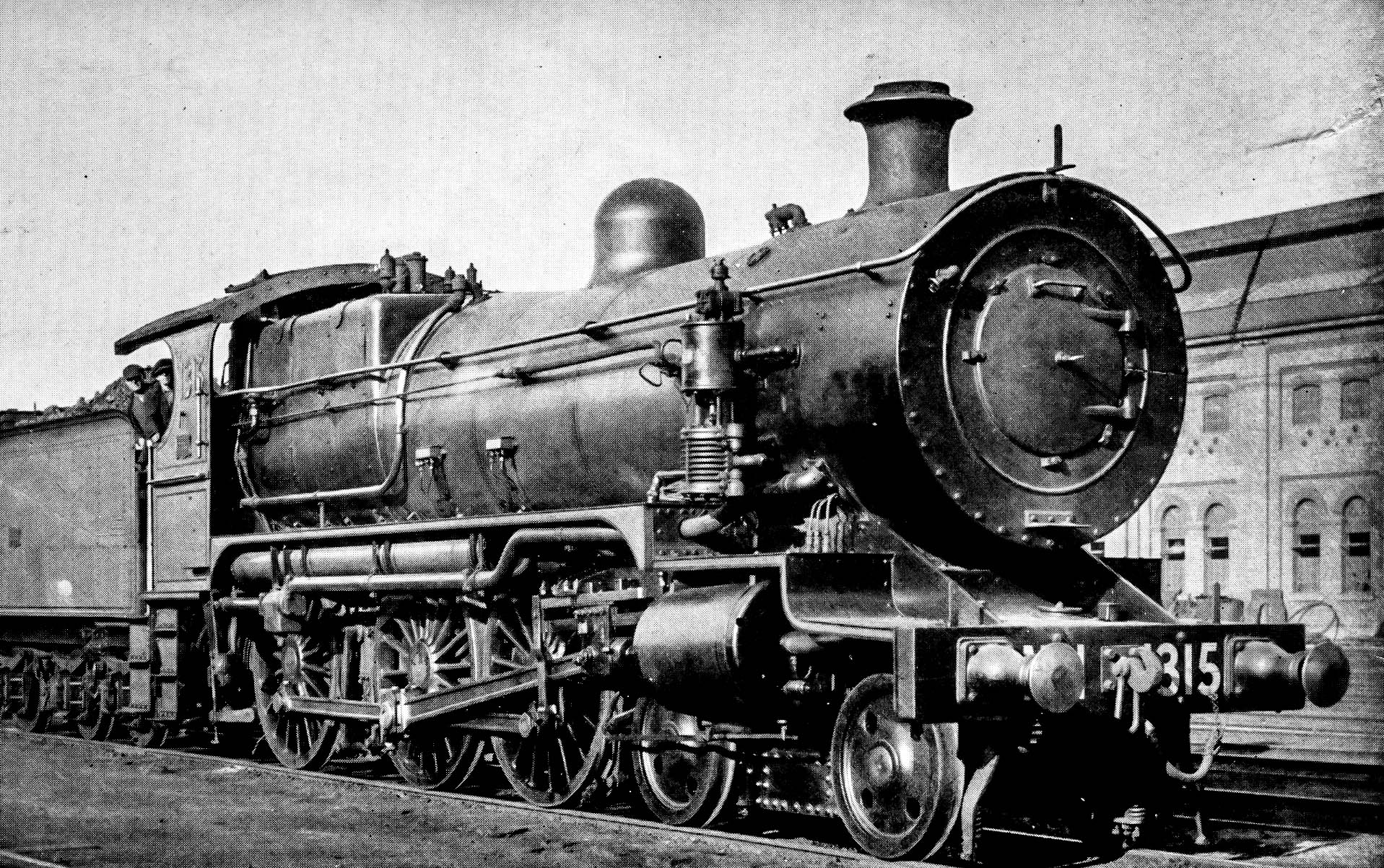 NSWGR Class C35 Locomotive